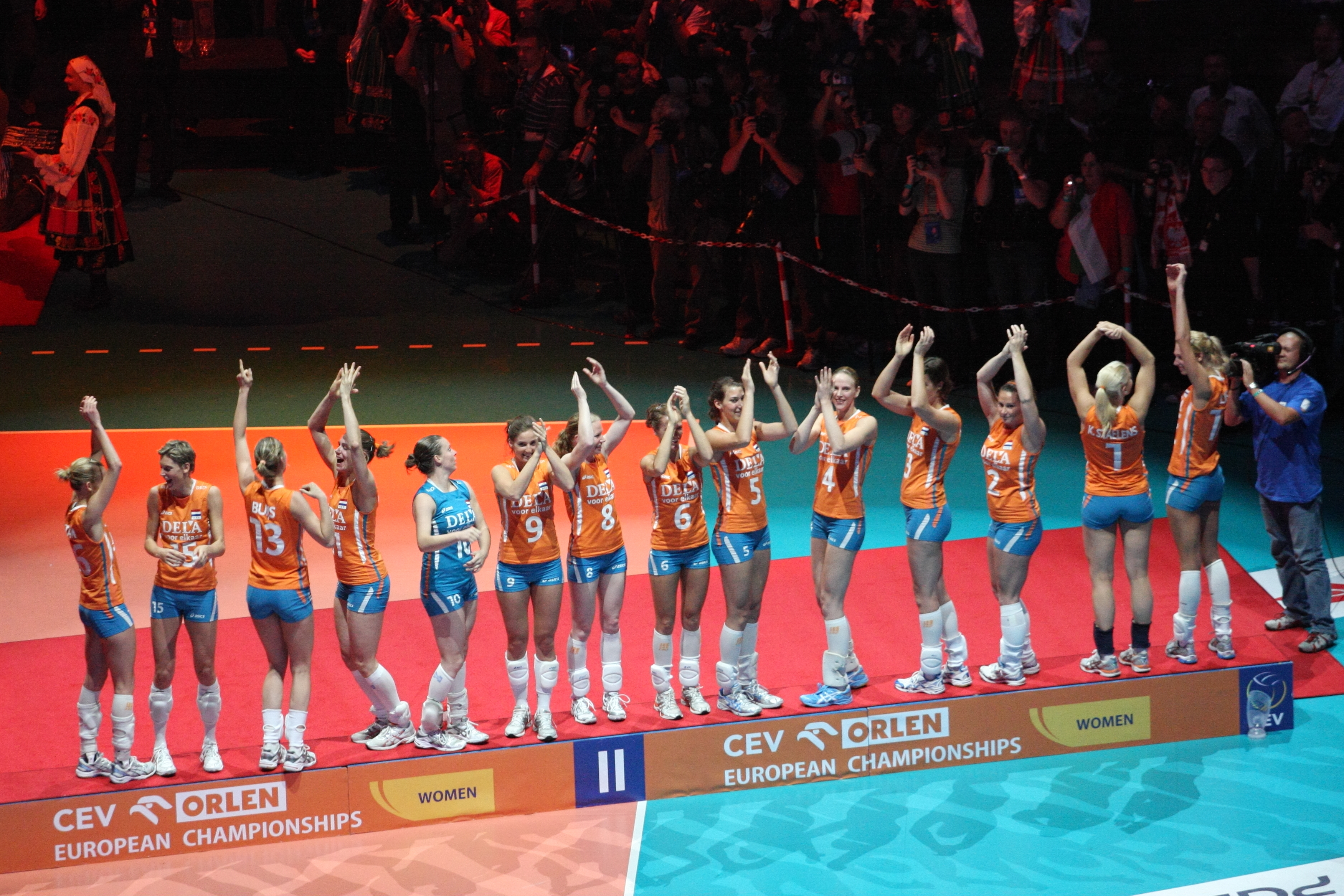 Women’s European Volleyball Championships 2009